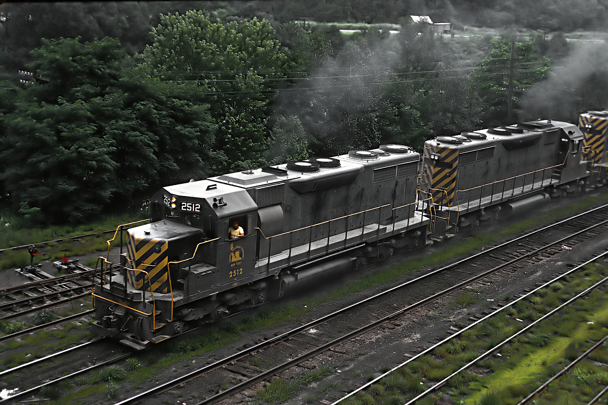 A Roger Puta photograph.